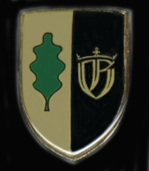 Staff & HQ Company 4th Armored Grenadiers Brigade